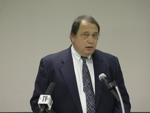 West Virginia state delegate Ron Fragale